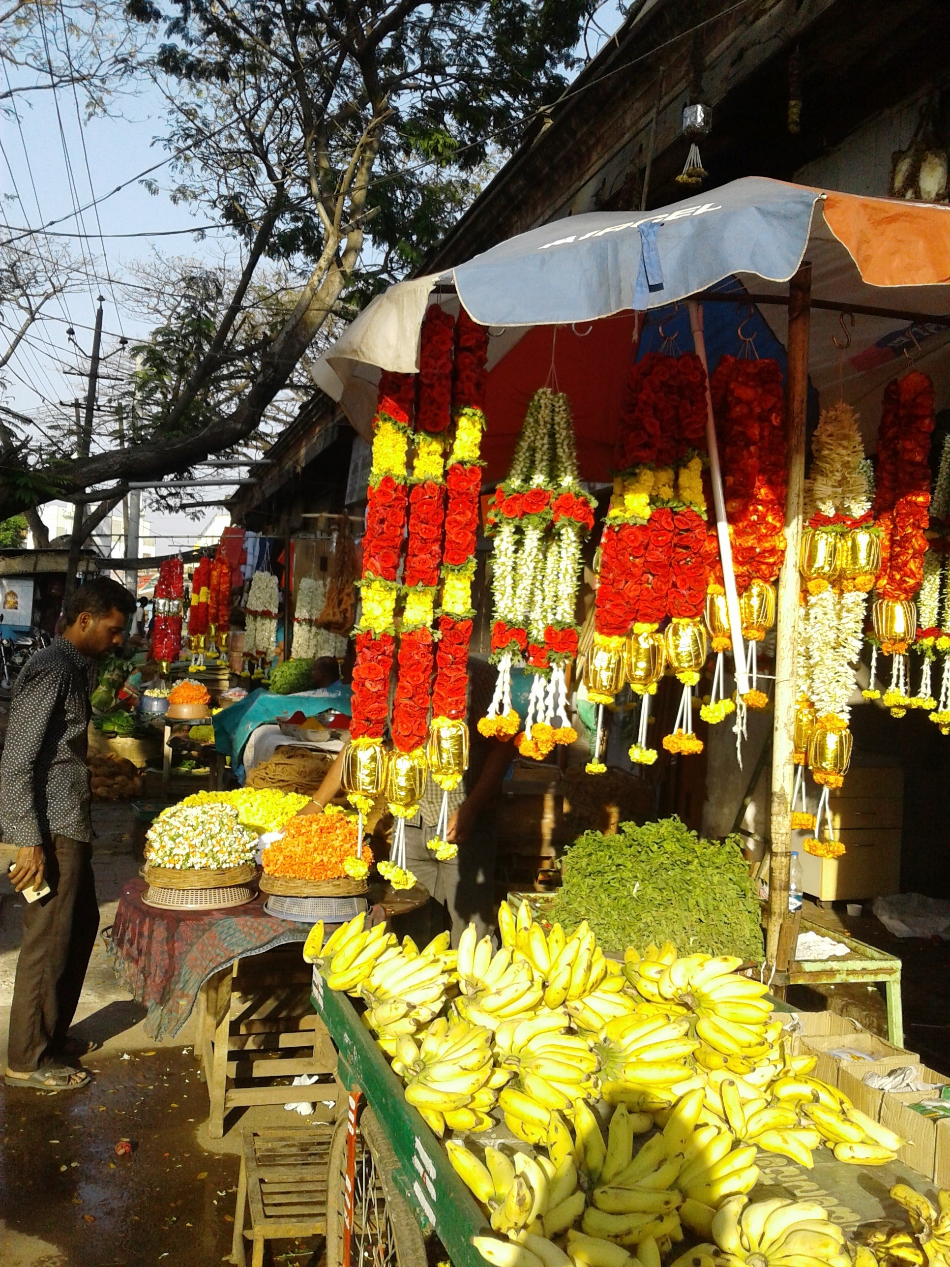 Mysore South, Karnataka, India.